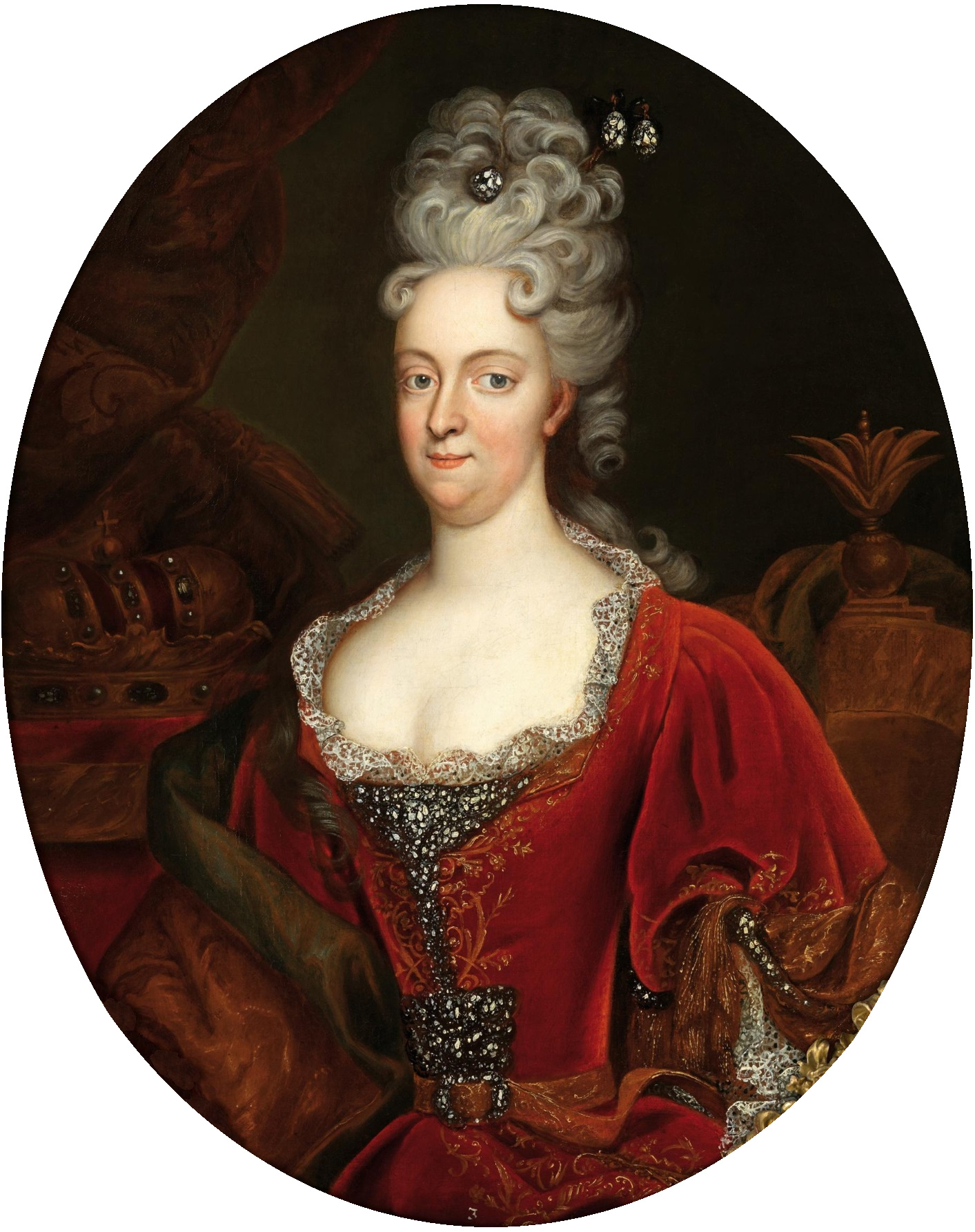 Portrait of Wilhelmine Amalia of Brunswick-Lüneburg (1673-1742)